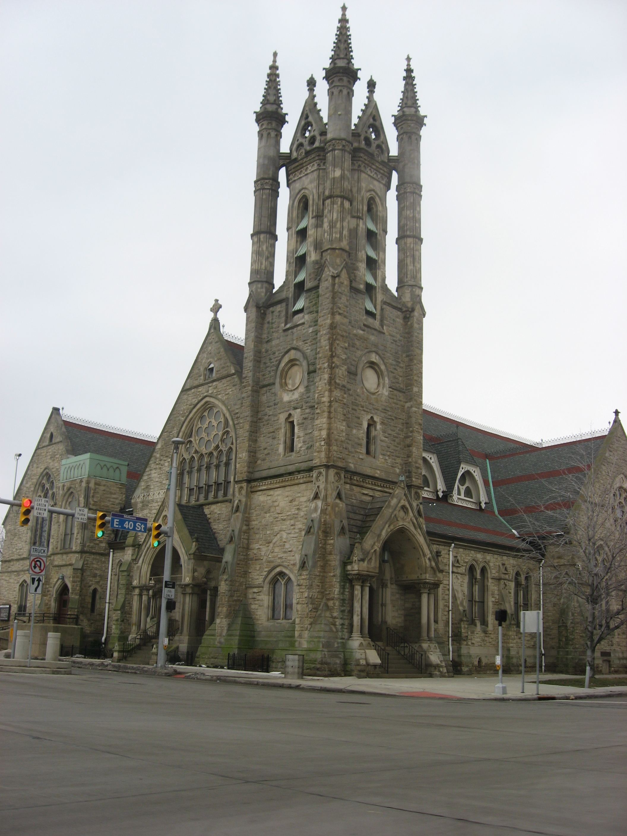 Exterior of St. Paul's Episcopal Church, located at 4120 Euclid Avenue in Cleveland, Ohio, United States. Built in 1876, the church is listed on the National Register of Historic Places.